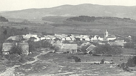 Photo of the village Kriebaum (destroyed after 1945)